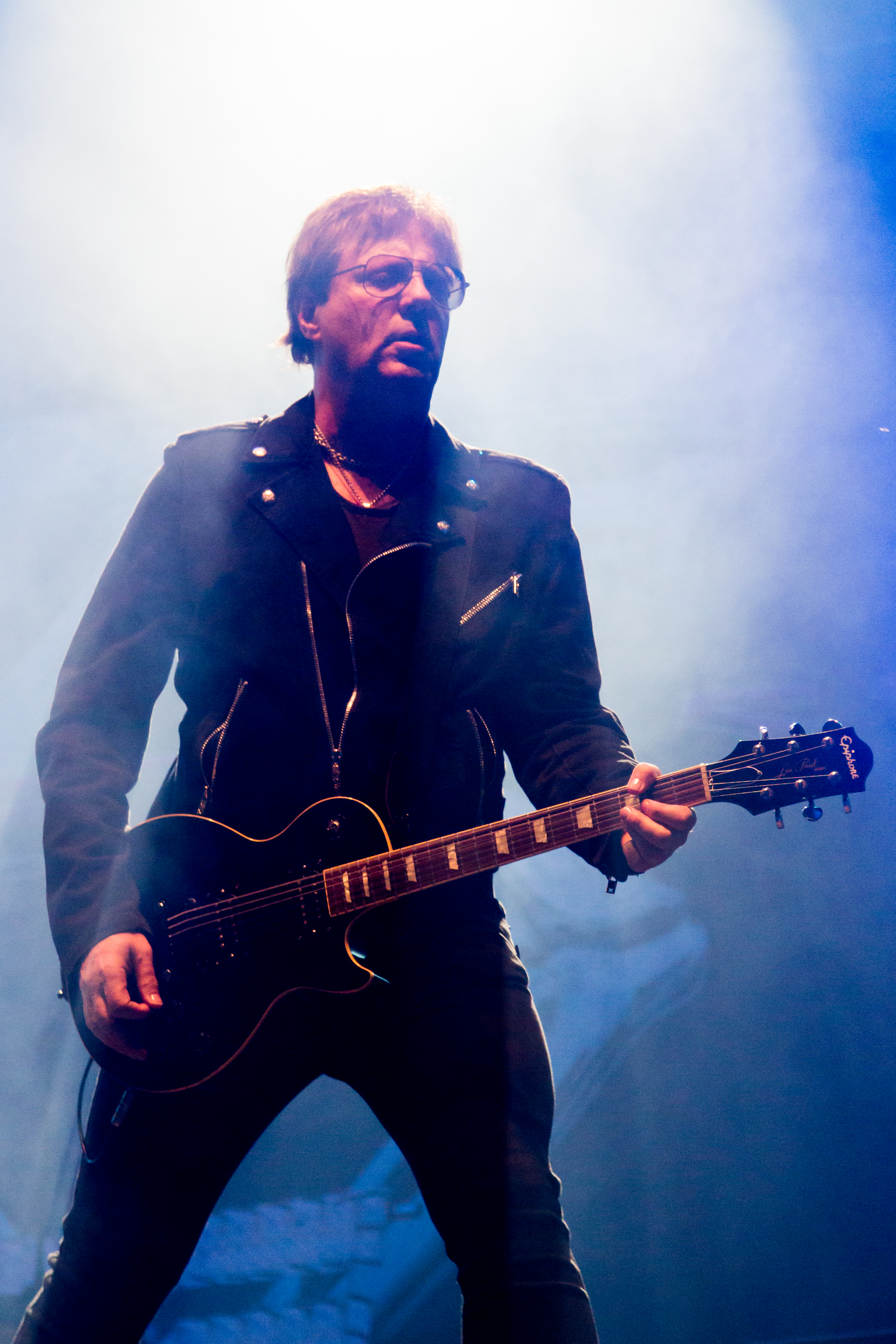 John „Jay Jay“ French from Twisted Sister at the See-Rock Festival 2014